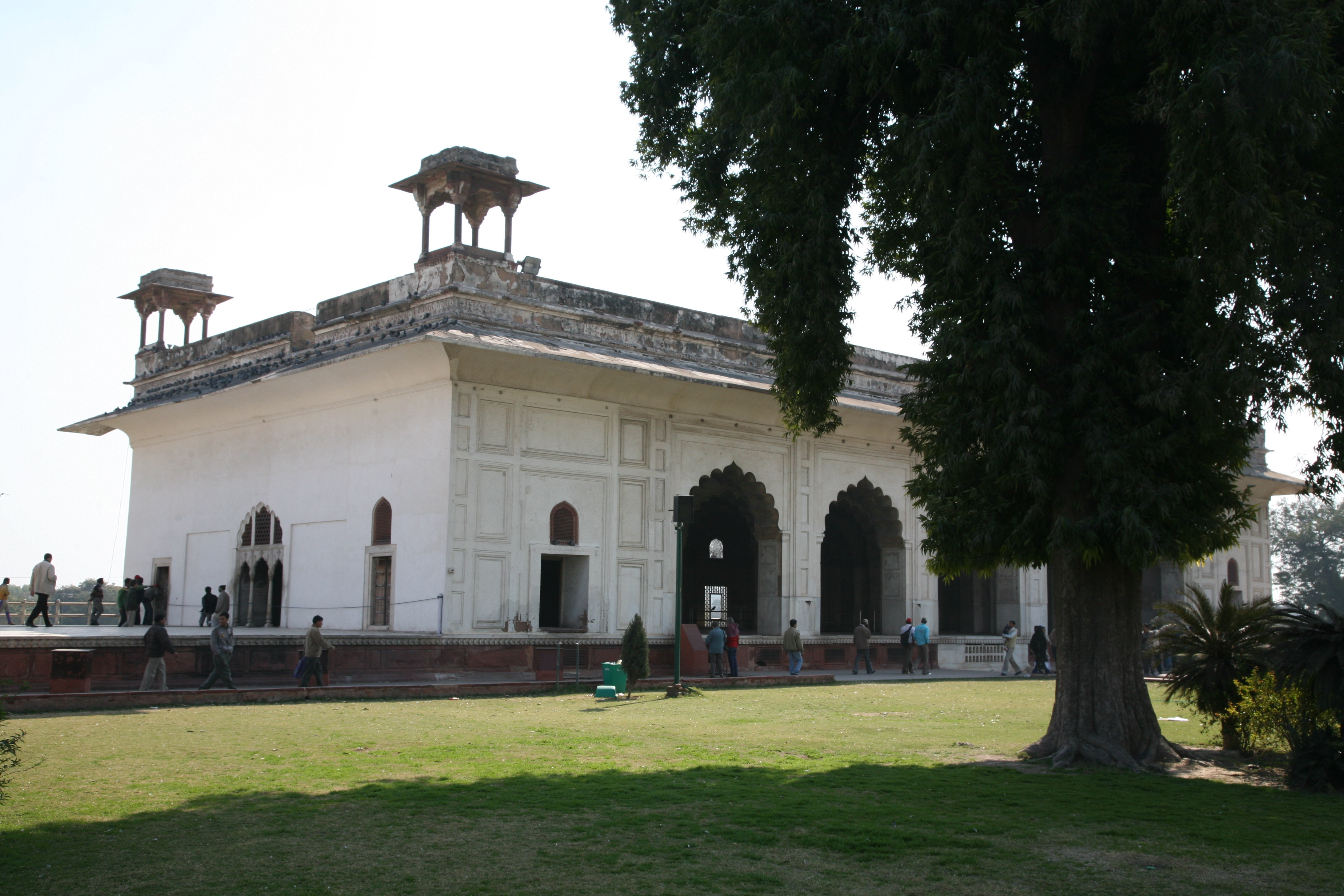 Rang Mahal at the Red Fort, Delhi